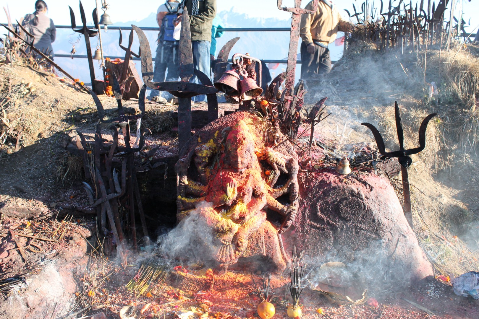 Kalinchok bhagawati temple situated in Dolakha District.